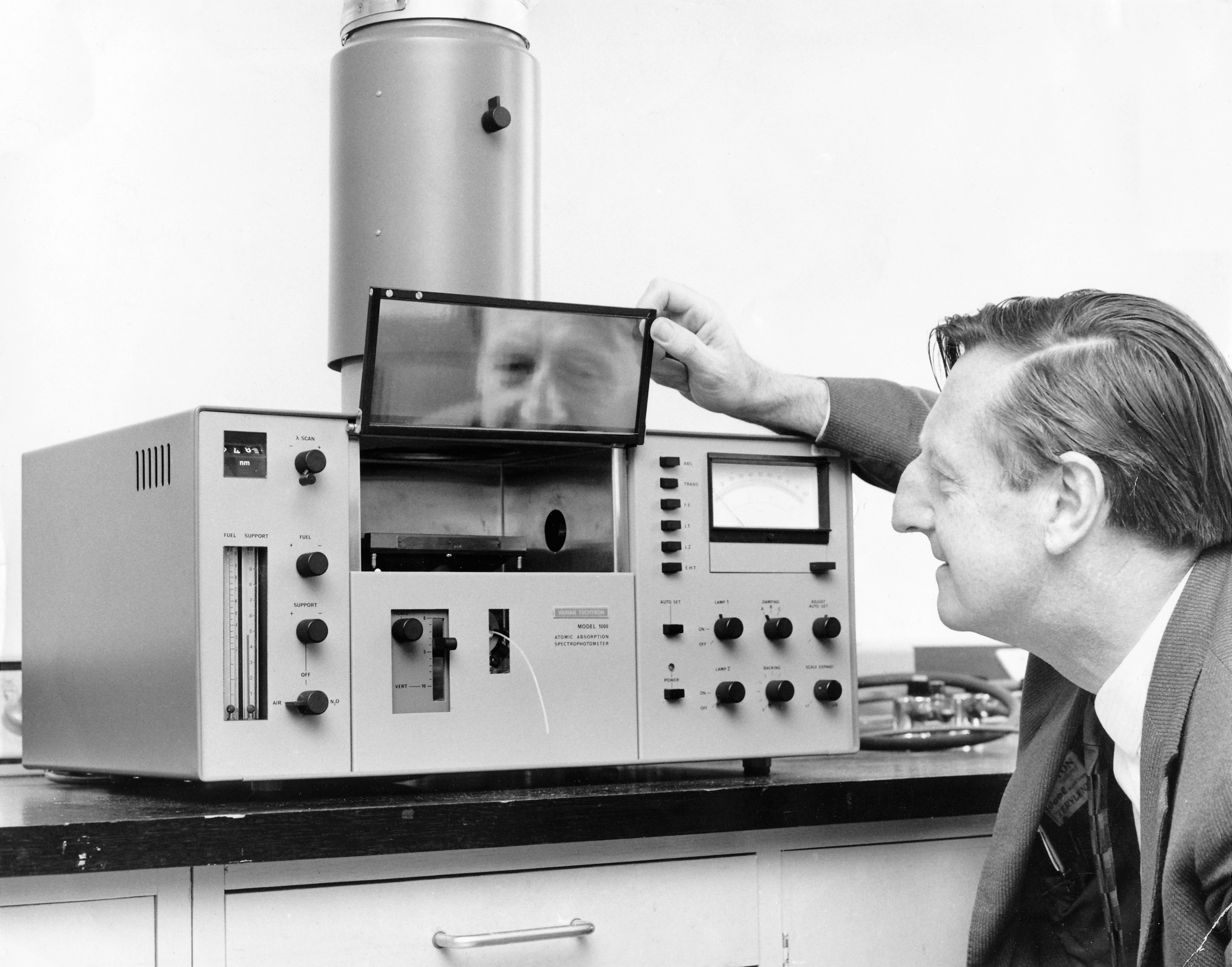 Alan Walsh (1916-1998), inventor of the atomic absorption spectroscopy (AAS).